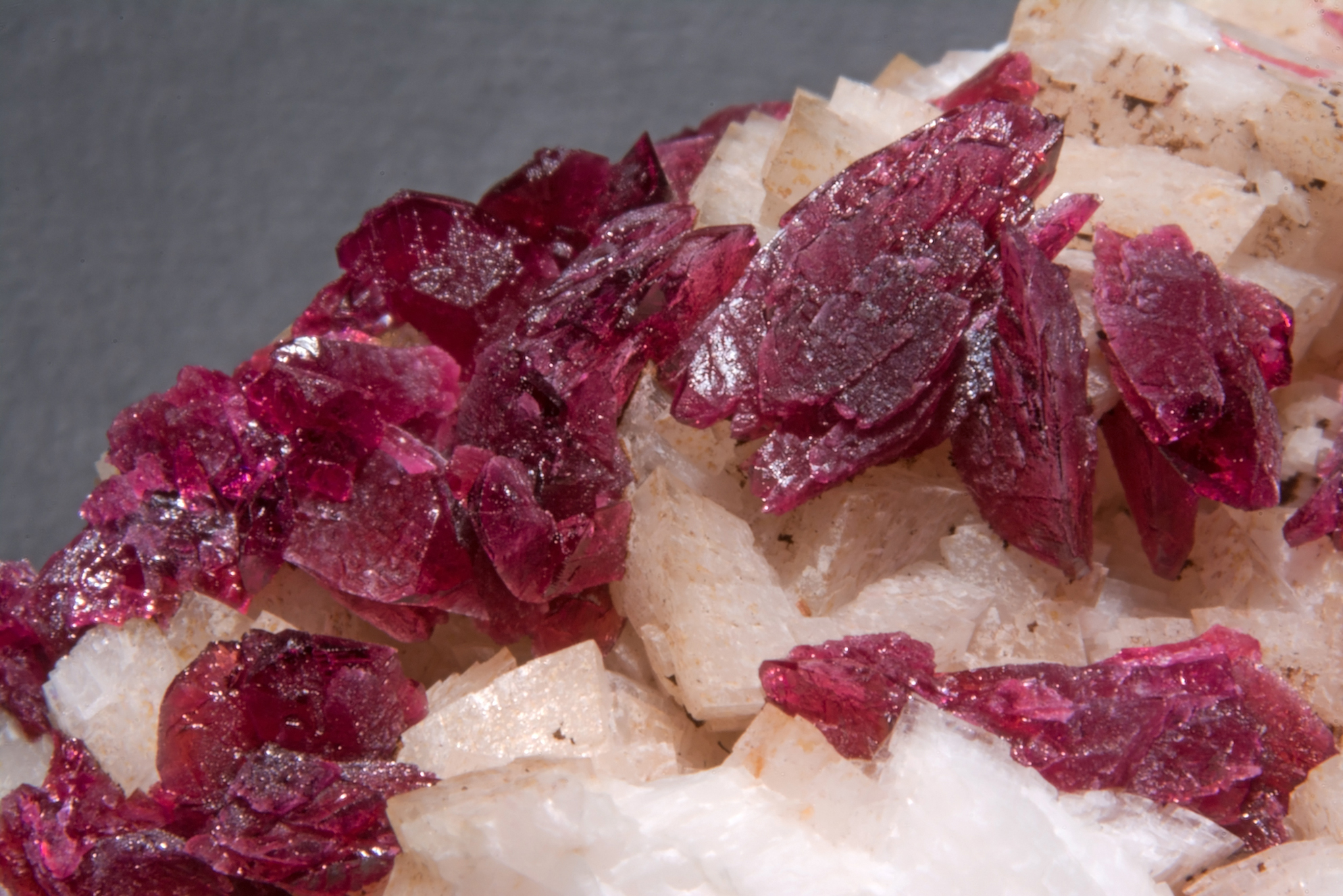 roselite, dolomite : Agoudal Centre Quarry, Agoudal, Bou Azer District (Bou Azzer District), Tazenakht, Ouarzazate Province, Souss-Massa-Draâ Region, Morocco